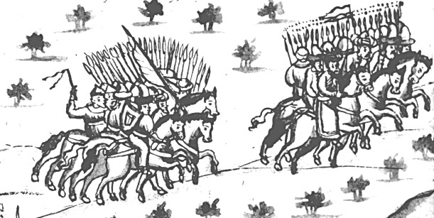 The conquest of Siberia by Yermak (1580—1585). The miniature depicts the fall of Qashliq to Yermak, and the flight of Khan Kuchum (23-25 October 1582)